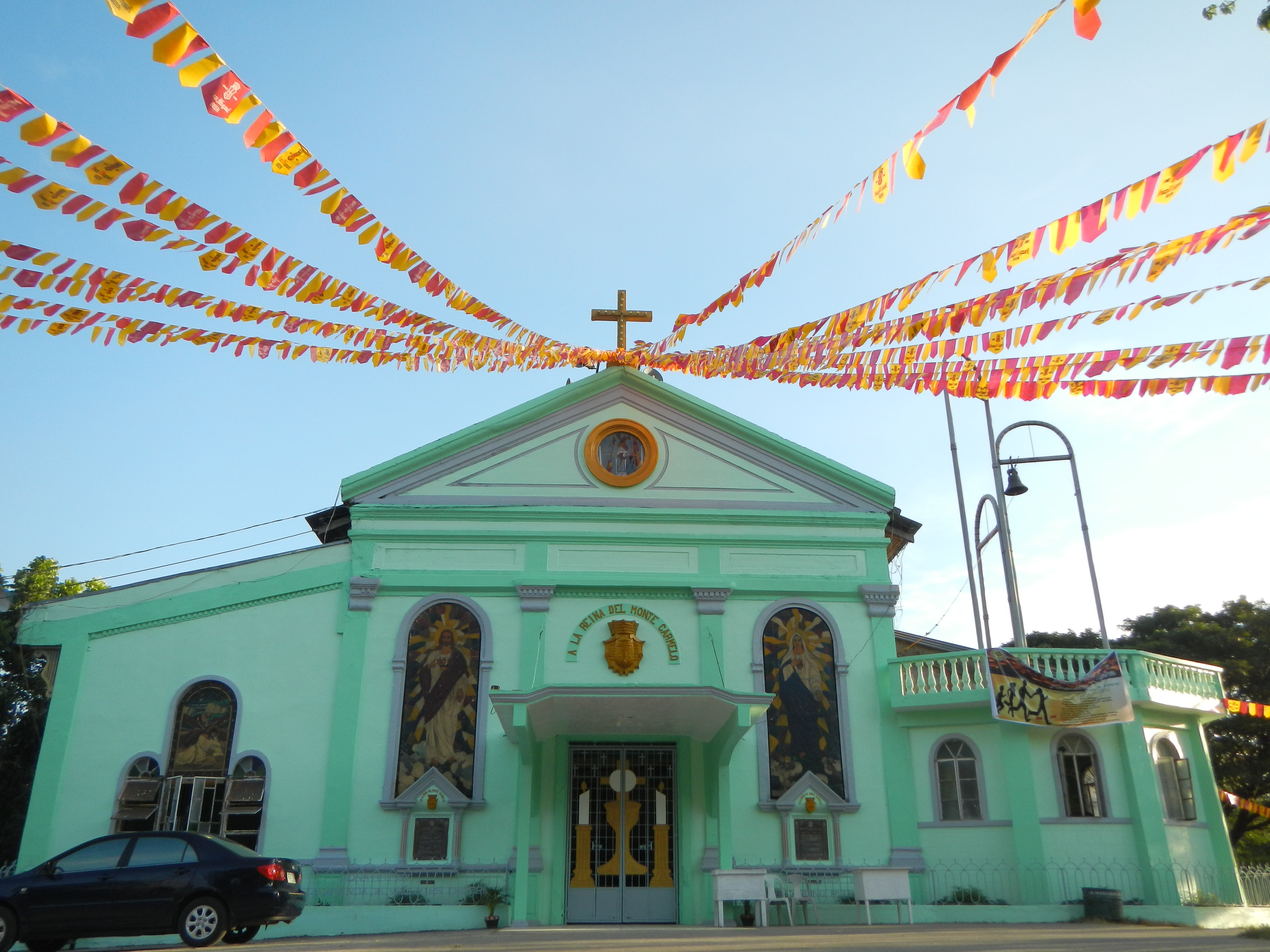 Our Lady of Mount Carmel Parish Church, Diocese of San Fernando de La Union (Dioecesis Ferdinandopolitana ab Unione) Suffragan of Lingayen – Dagupan [1] Sison, Pangasinan[2][3]